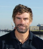 Secretary of State Karen Bradley attends the exciting Artemis Tech Ltd launch with Prof. Mark Gillan, Iain Percy OBE, double Olympic champion Americas Cup & Joe O'Neill from Belfast Harbour.